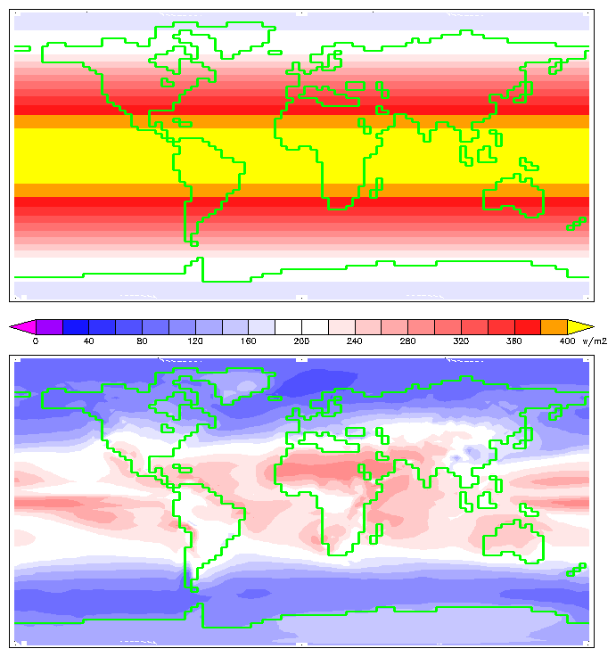 Top pic: top-of-atmosphere (TOA). Bottom pic: downwards, at the surface. Note that this data is from a climate model, not observation. The difference is accounted for by atmospheric absorption and reflection.